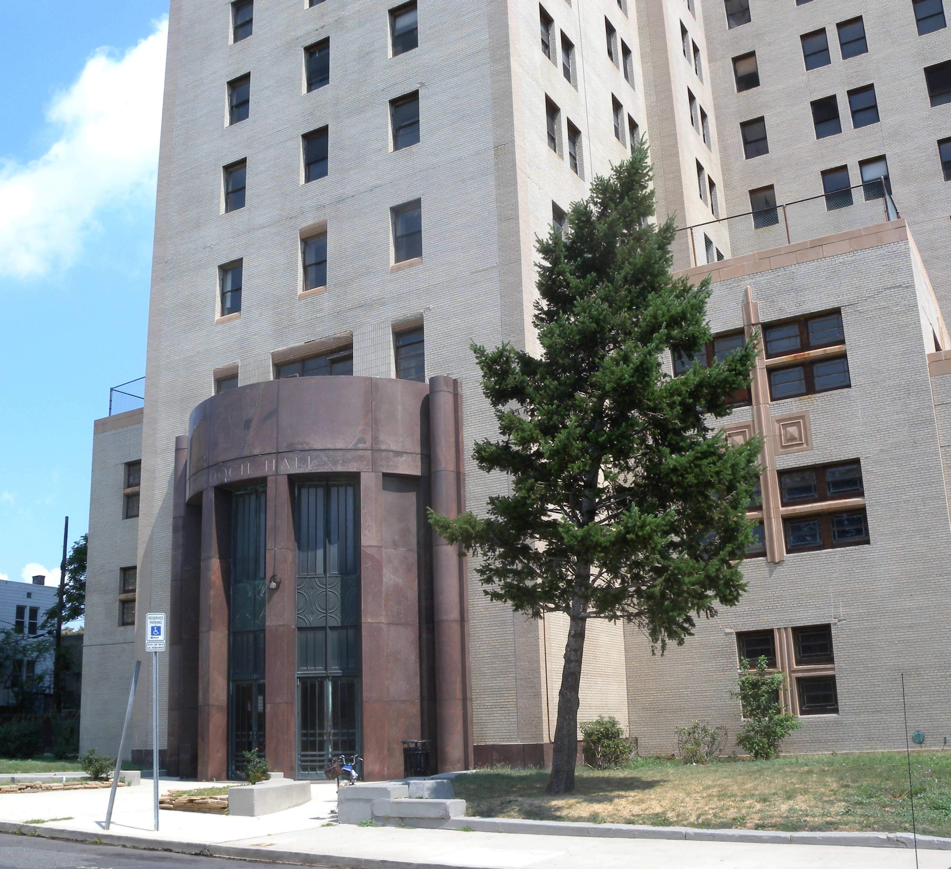 Looking north at Murdock Hall, former residence for nurses of JCMC, on a sunny midday.